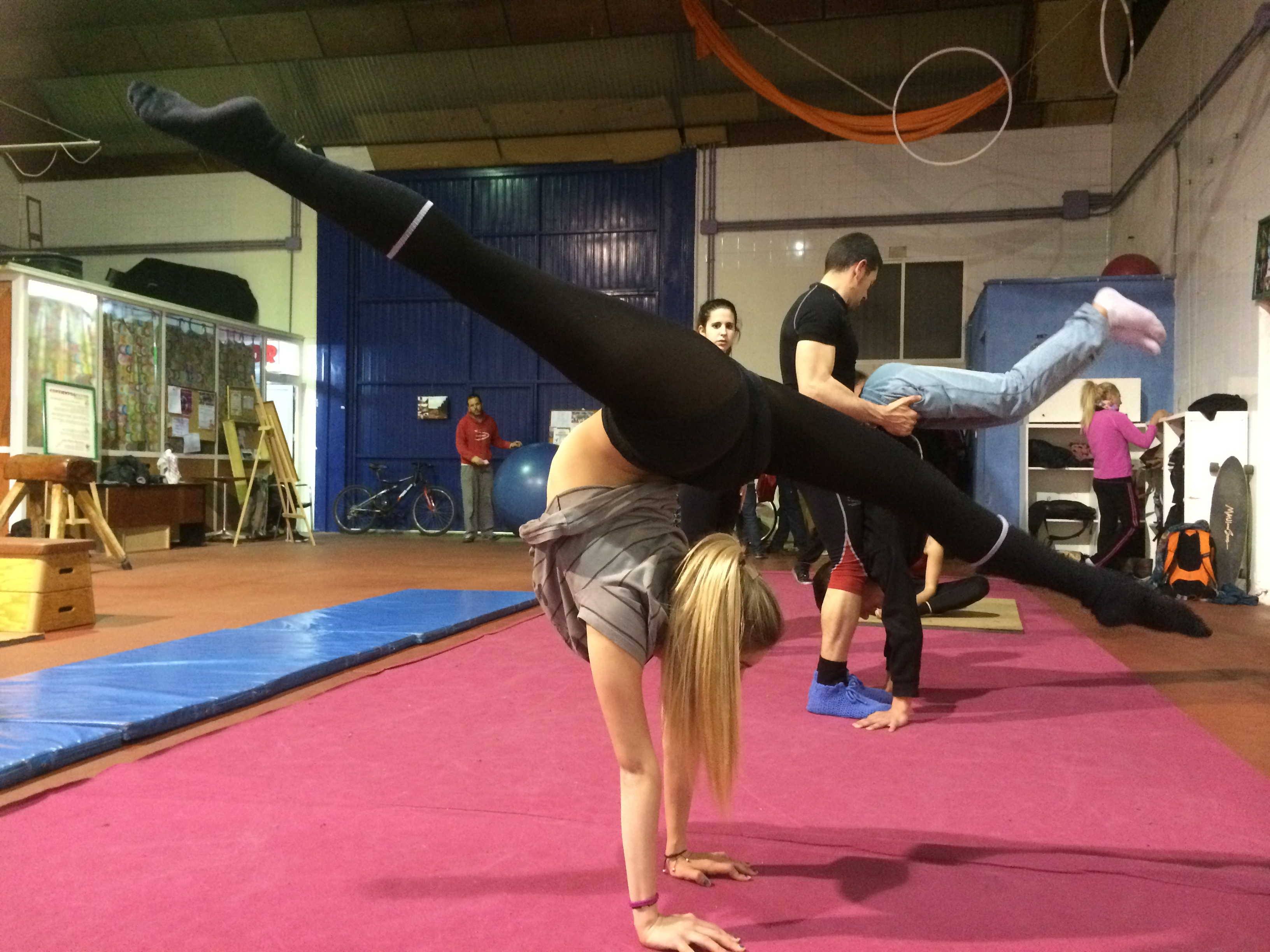 Author: Carmen Mateo Delgado